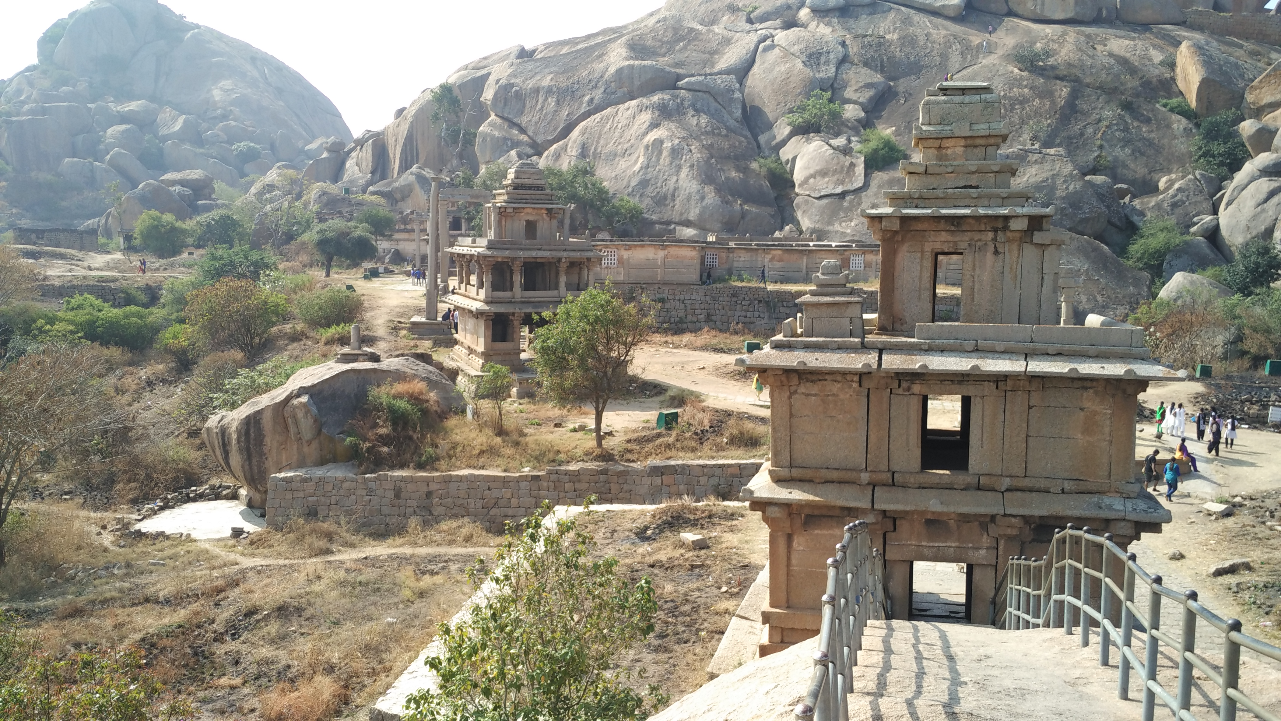 Ancient temple in Chitradurga fort, Karnataka, India